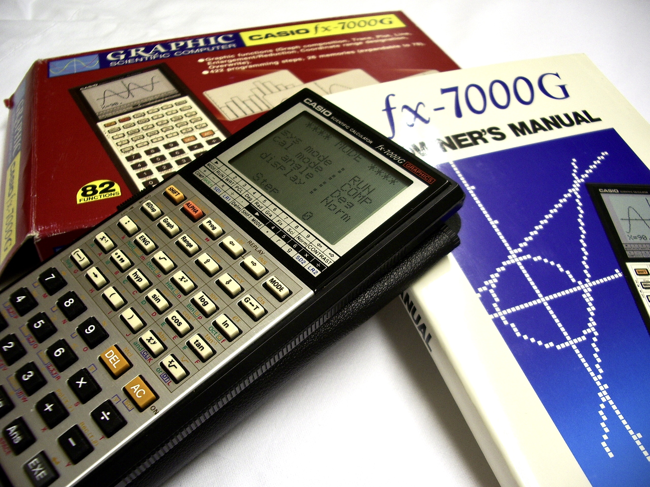 Casio fx-7000G, with box and manual. Bought in 1986 in W H Smith for £79.95.